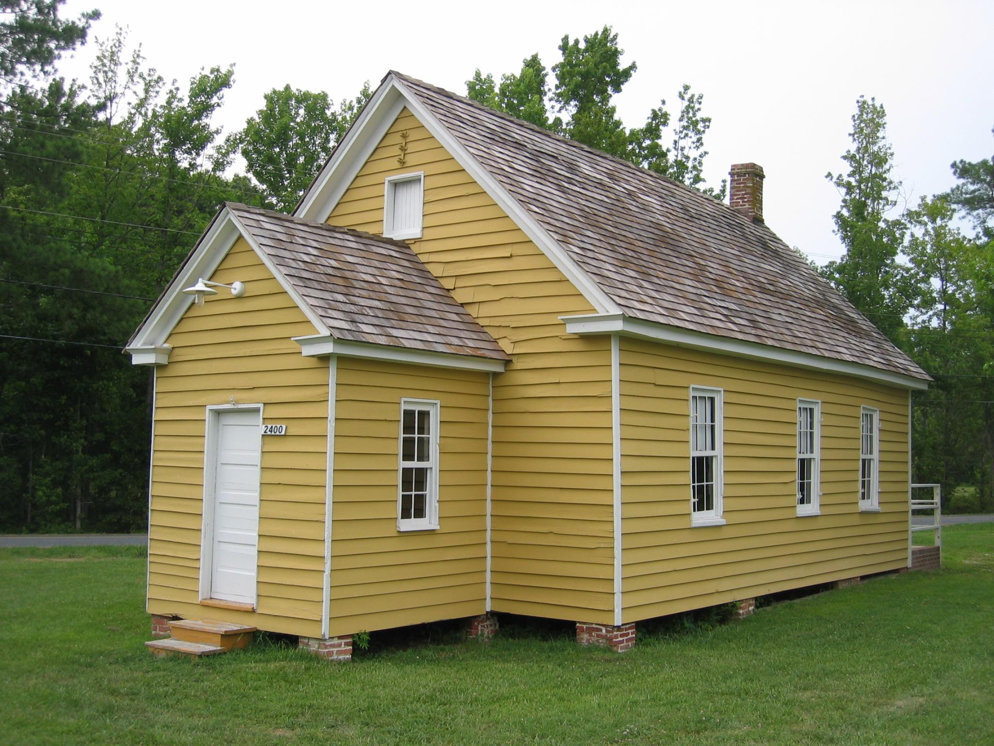 A view of the Stanley Institute or Rock Church facing northwest.